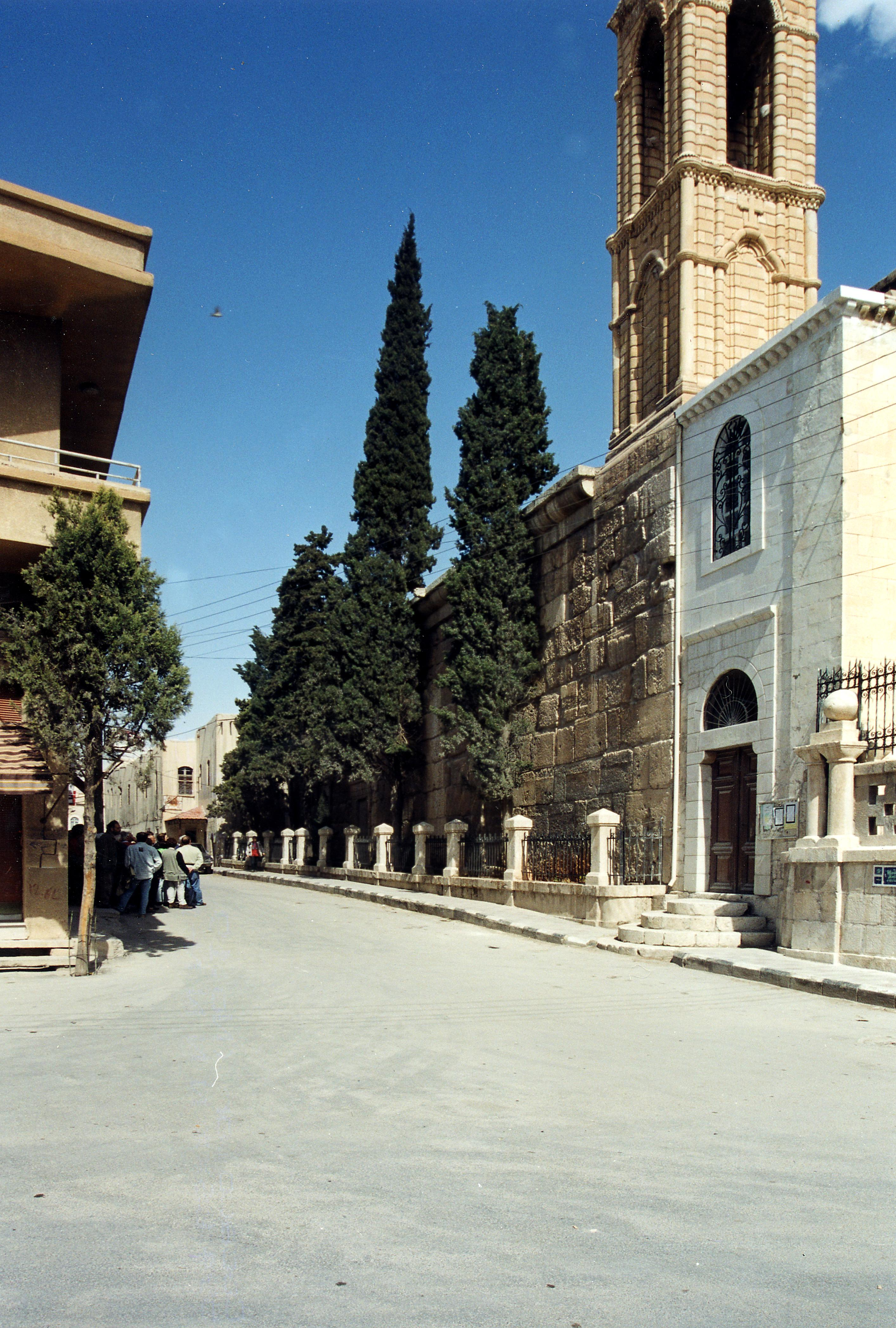 Church of St. Augustin, former Temple of Zeus Yabrudis, Yabrud in 2002